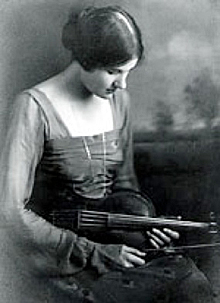 Rebecca Helferich Clarke with viola